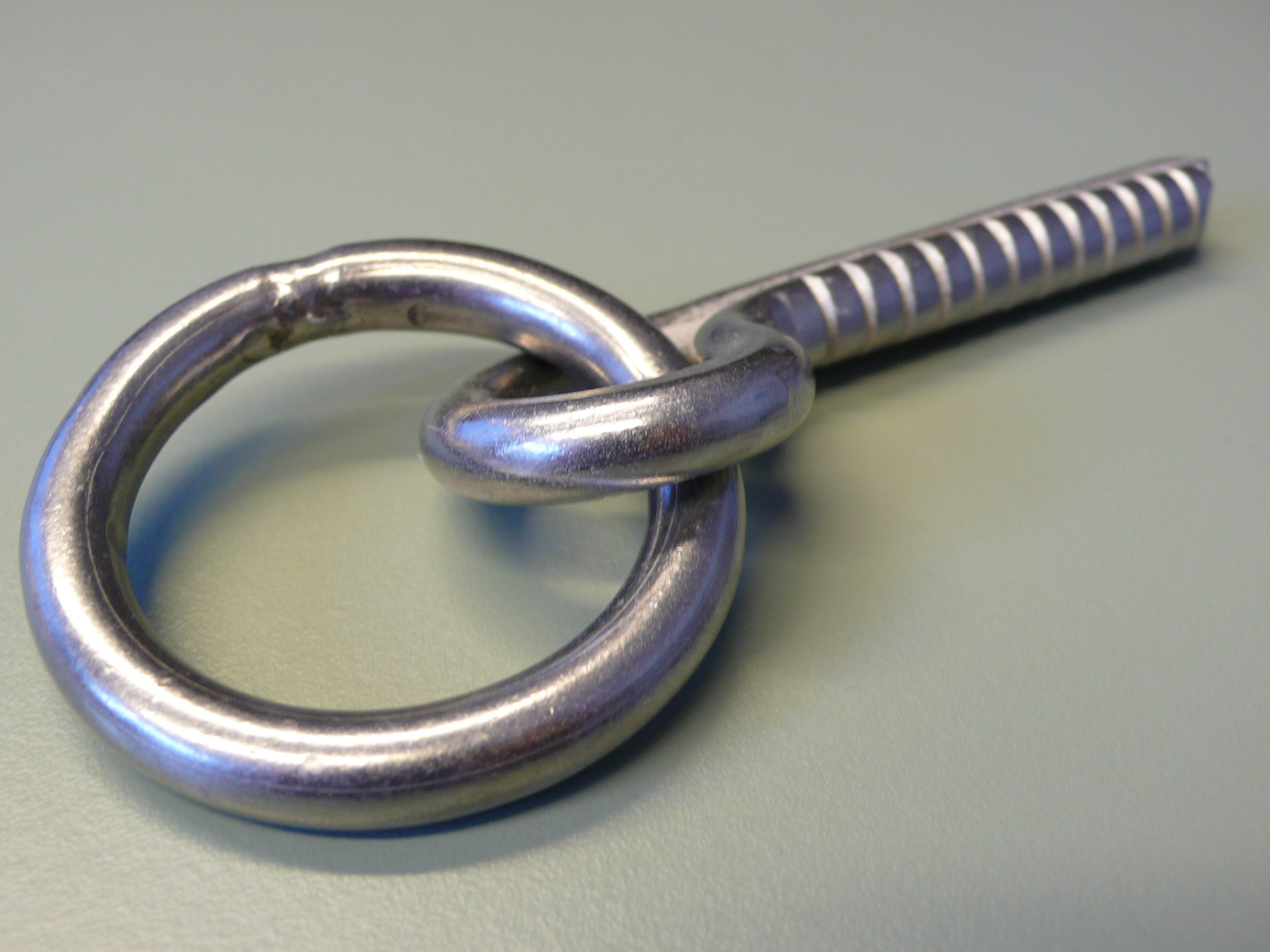 Glue in piton with ring